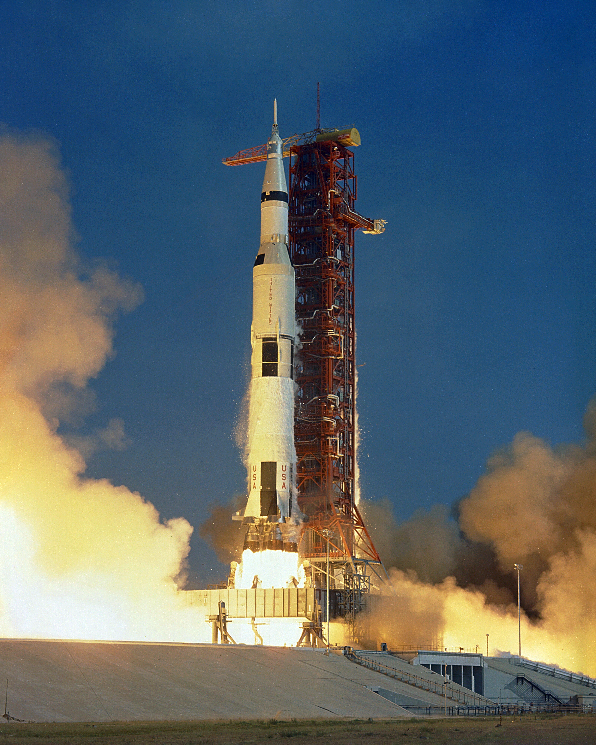 The Apollo 11 Saturn V space vehicle lifts off with astronauts Neil A. Armstrong, Michael Collins and Edwin E. Aldrin, Jr., at 9:32 a.m. EDT July 16, 1969, from Kennedy Space Center's Launch Complex 39A.